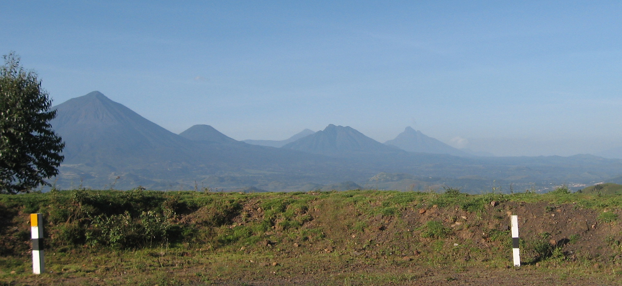 The Virunga mountain peaks taken from the vicinity of Kisoro, Uganda. From left to right, Muhabura, Gahinga, Karisimbi, Sabyinyo, Mikeno.